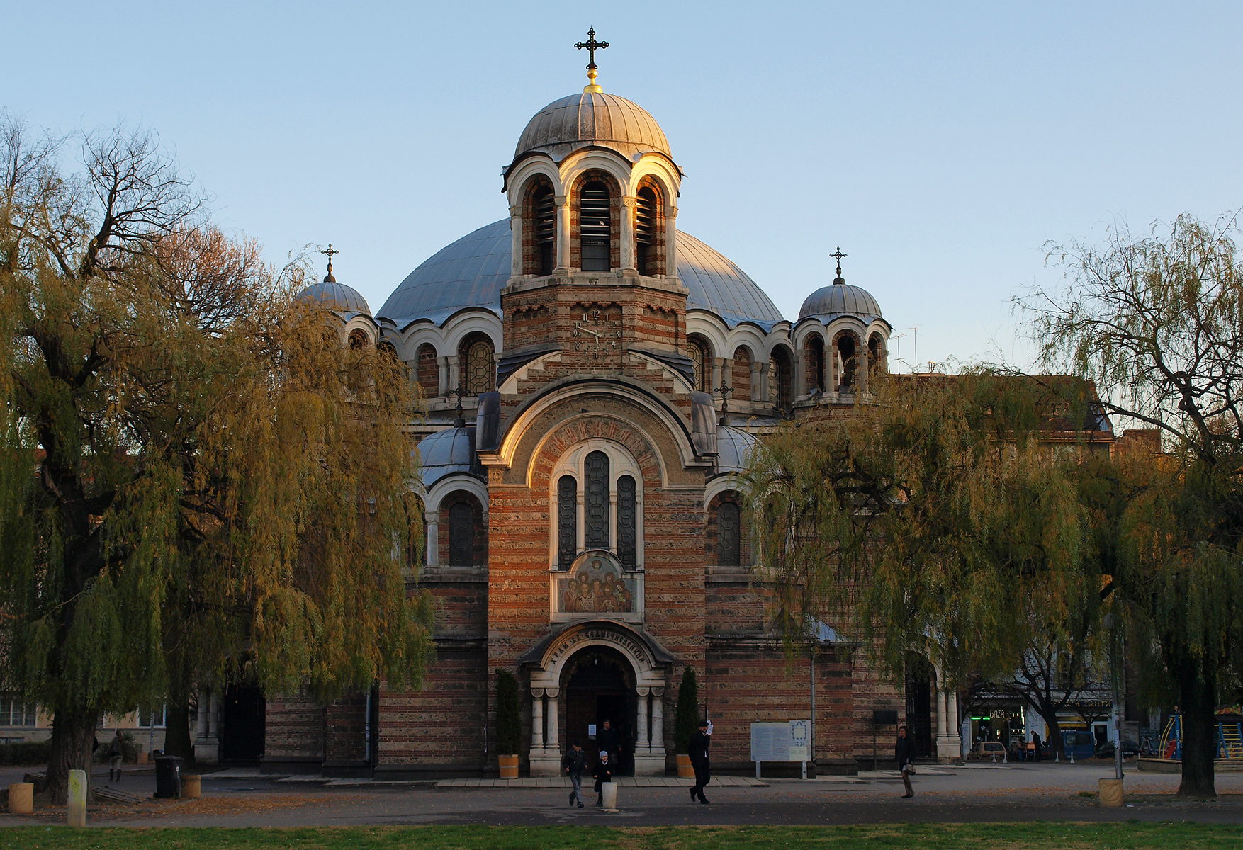 Sveti Sedmochislenitsi Church, Sofia, Bulgaria